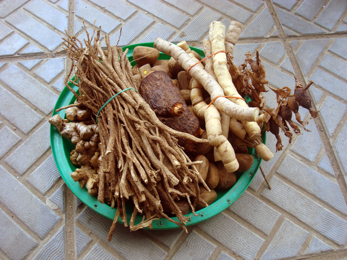 Pau de cabinda